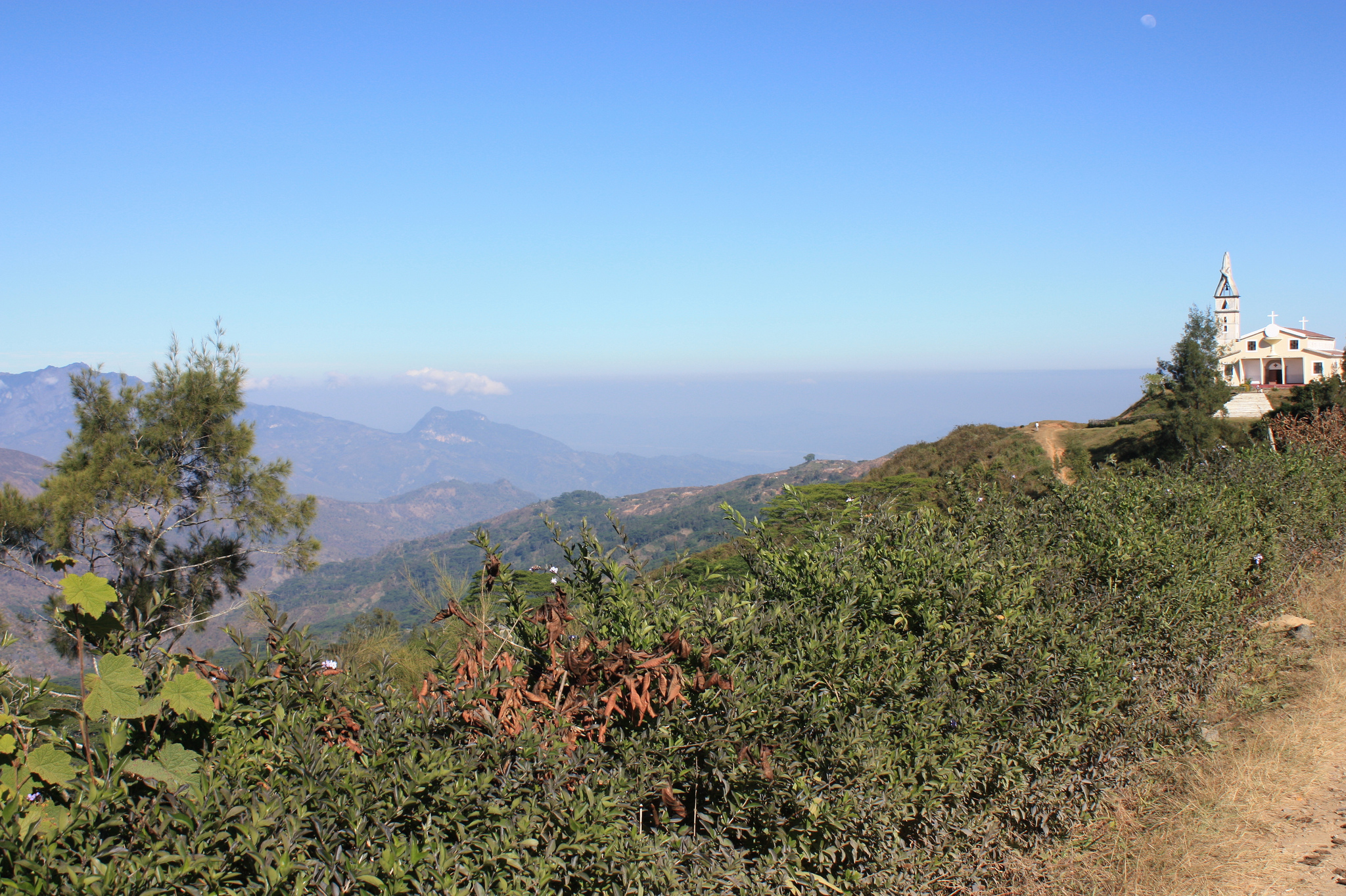 Timor-Leste Church Mass: District Ermera, Subdistrict Letefoho, Suco Haupu.